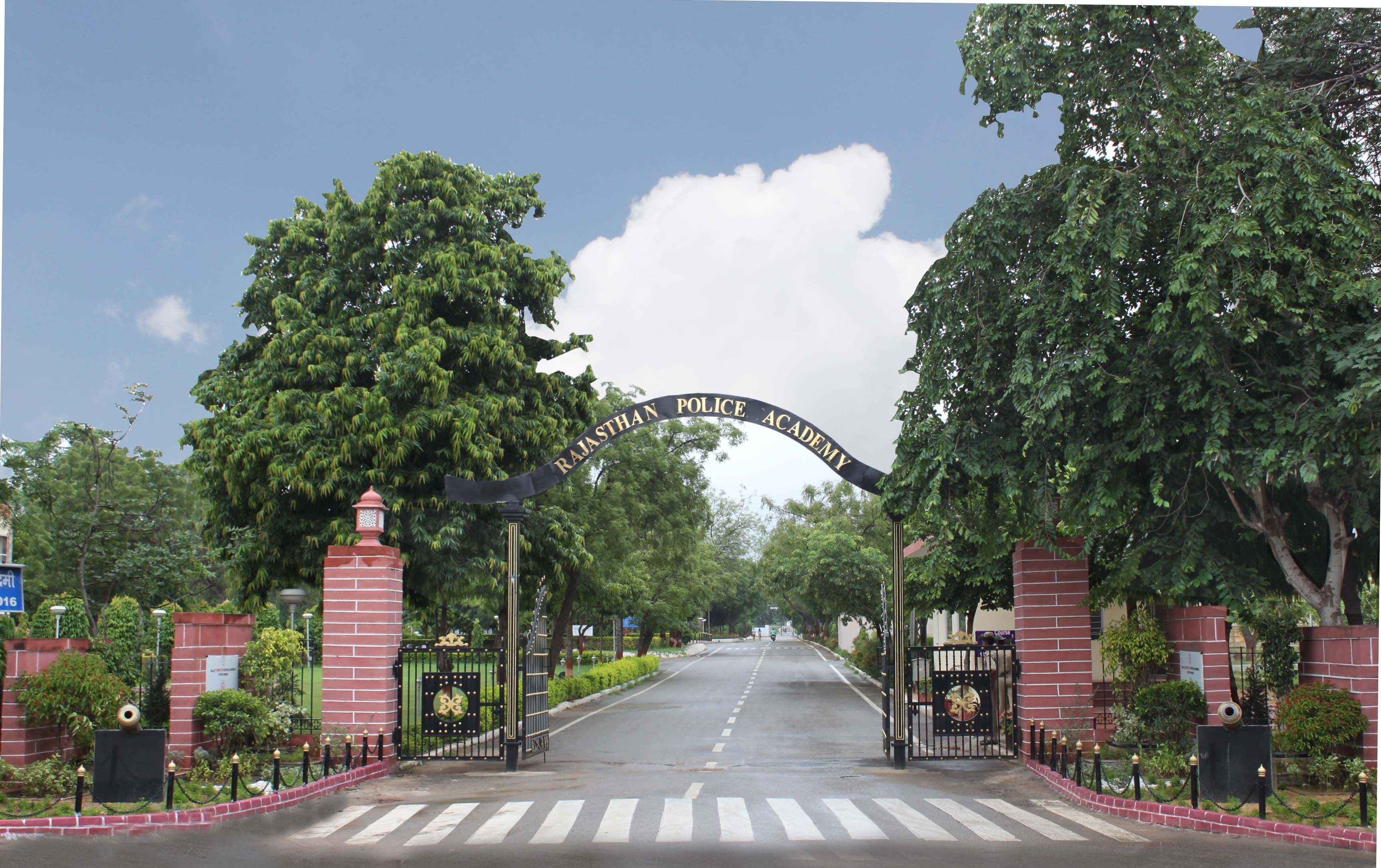 Rajasthan Police Academy is a premier Police training institution. It is located at Nehru Nagar, RPA Road, Jaipur.